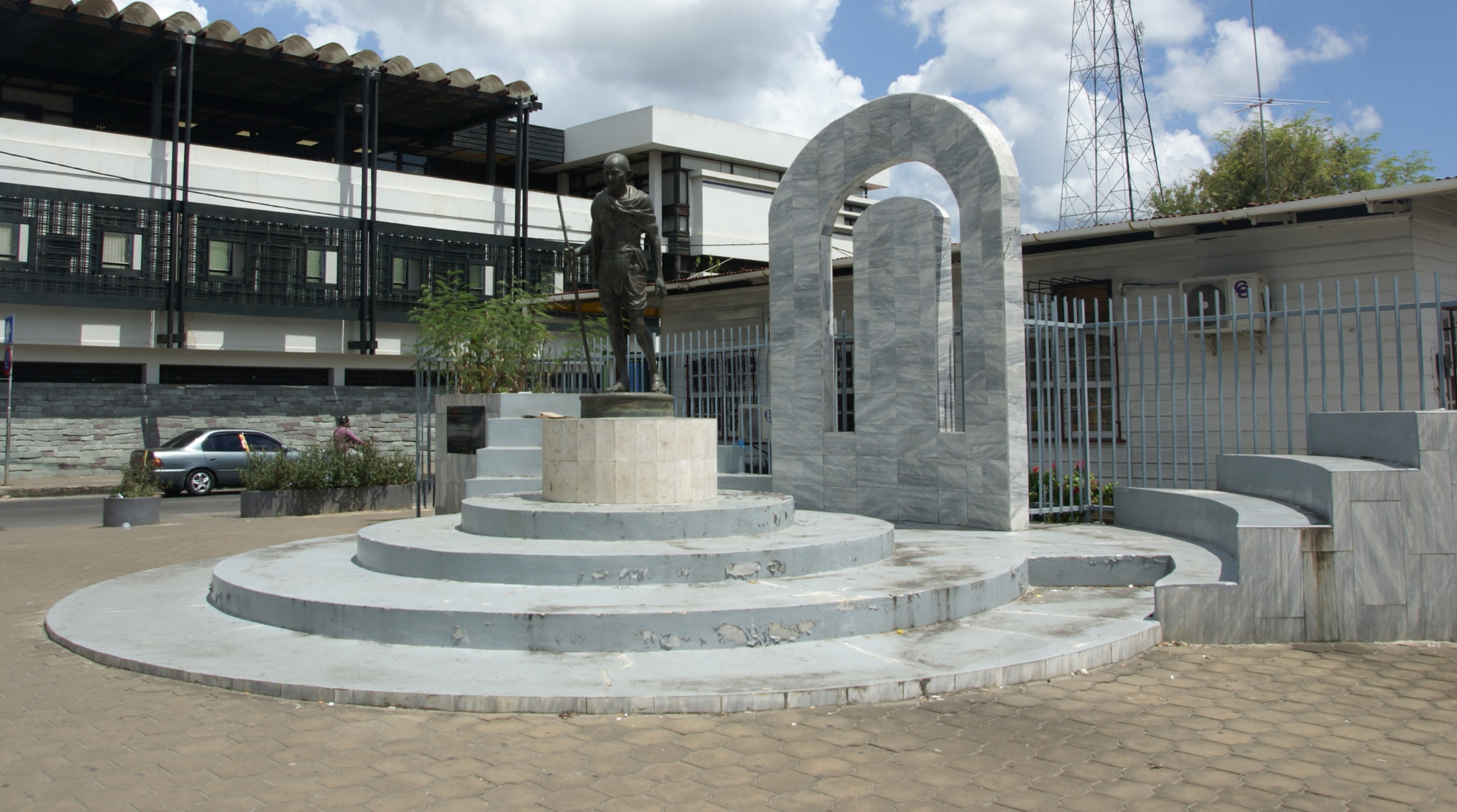 Statue of Mahatma Gandhi, Knuffelsgracht, Paramaribo, Surinam.